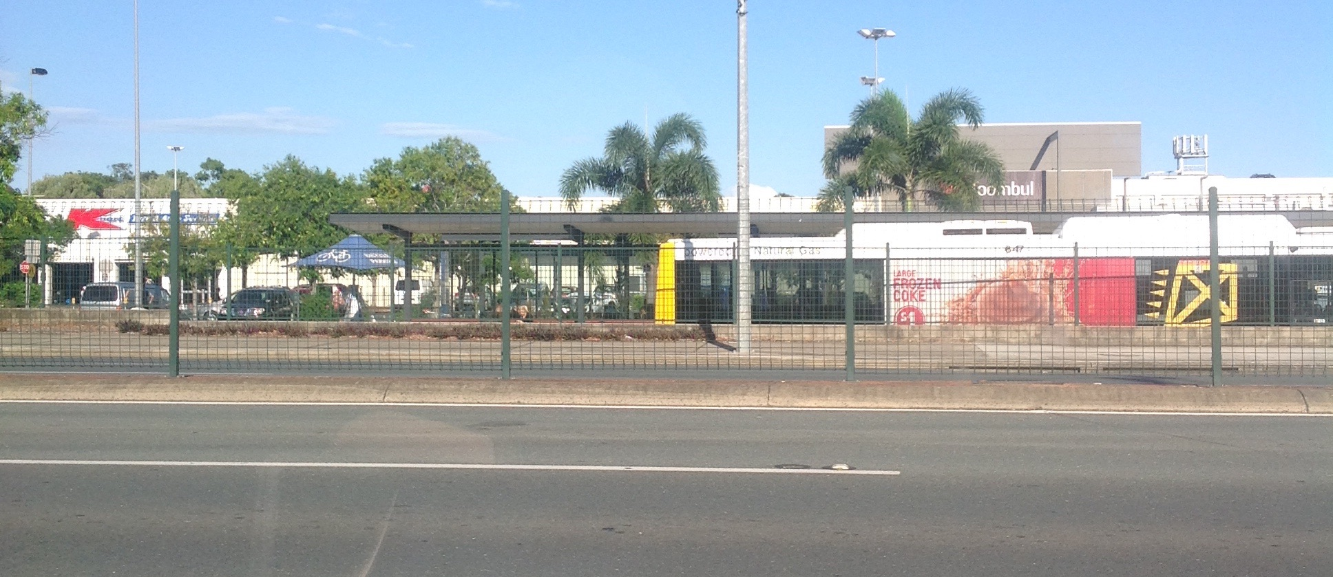 The Toombul bus interchange in 2015.